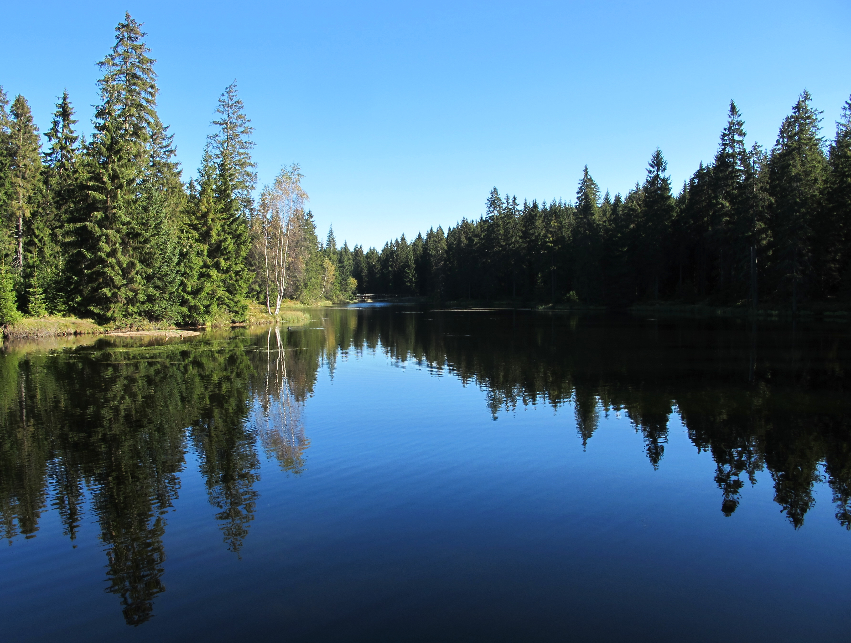 Pond Blatný rybník in Jizera Mountains, Jablonec nad Nisou District - Czech Republic